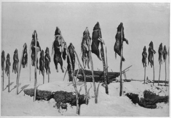 Koryak underground houses with sacrificed dogs